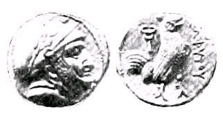 Sophytes